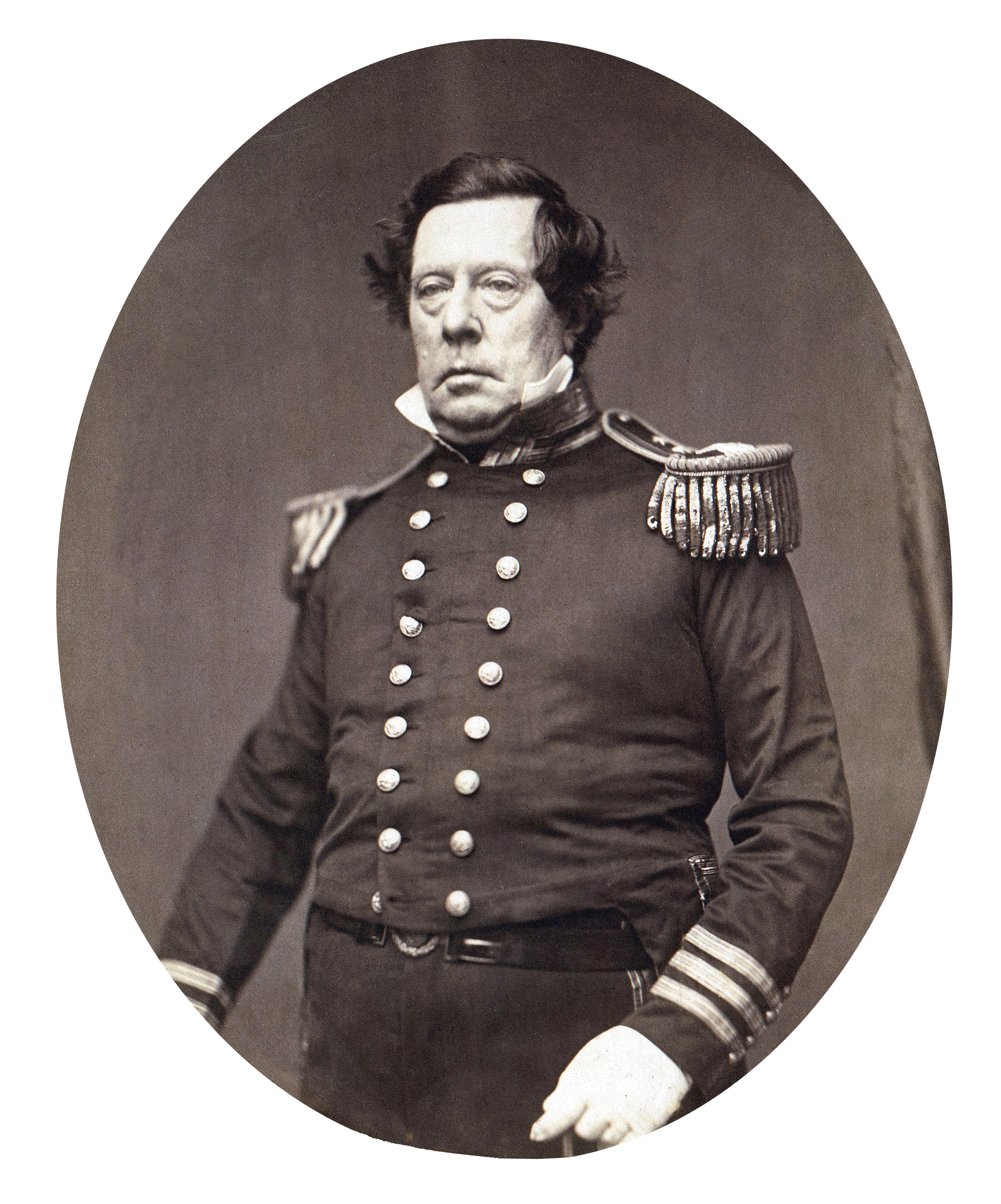 Commodore Matthew Calbraith Perry